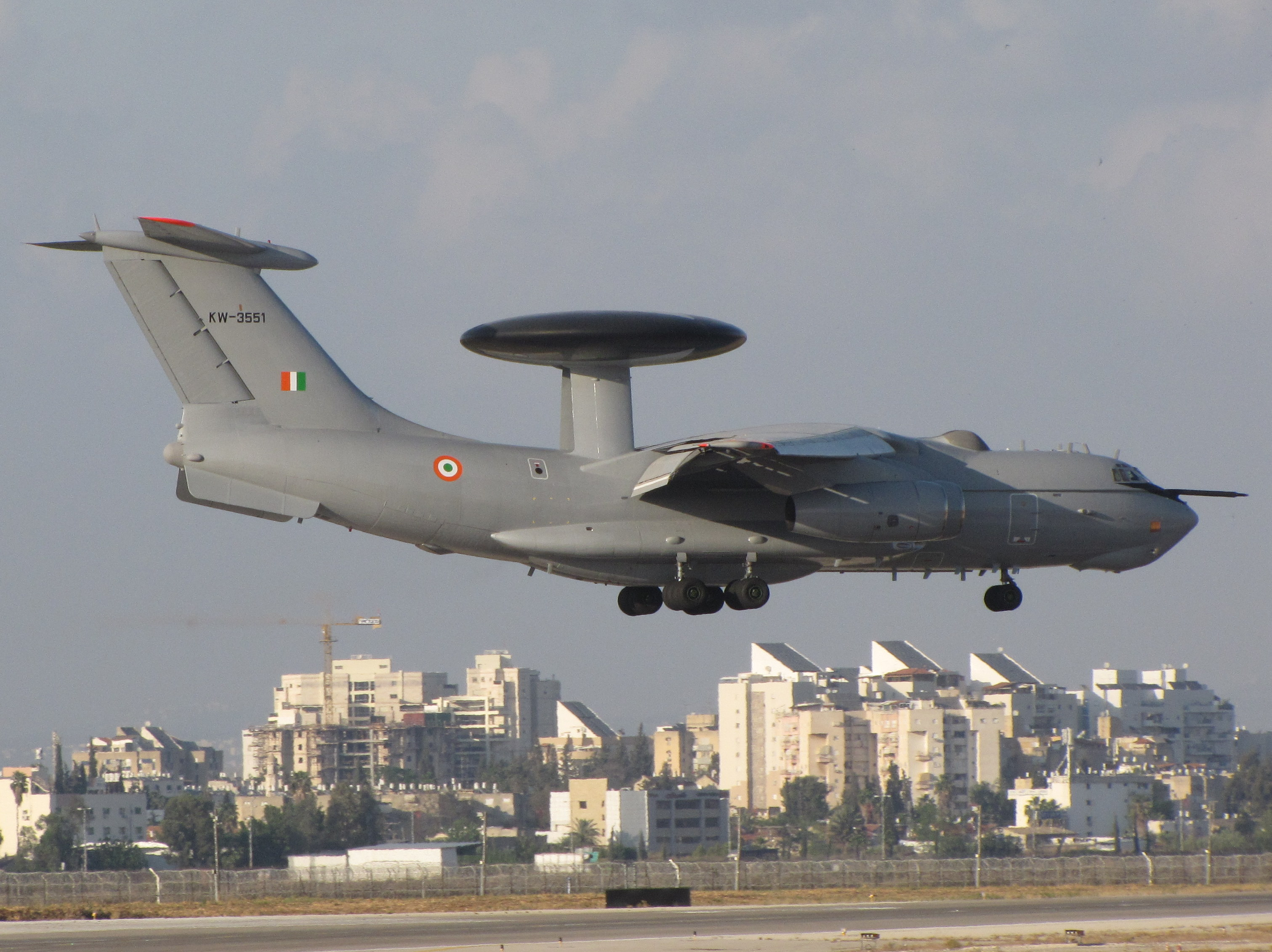 India Air Force AWACS: Beriev A-50EI Mainstay